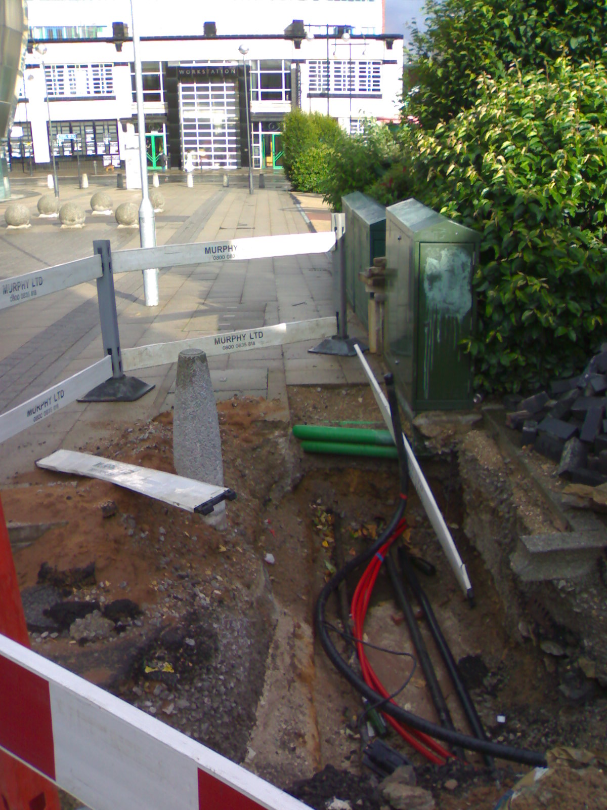 Pavement being dug up to service a vandalised Virgin Media cabinet. The cables are visible, which carry television, radio, telephone and broadband.